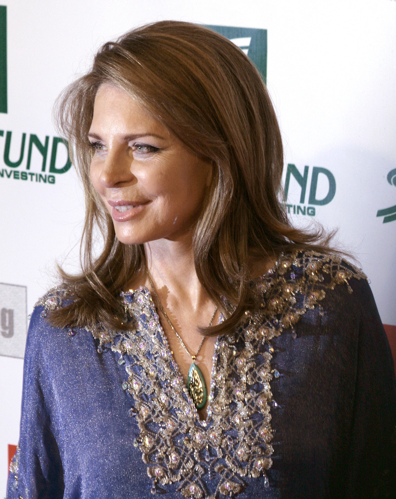 Queen Noor of Jordan at the Women's World Award 2009 (Wiener Stadthalle, Vienna, Austria).